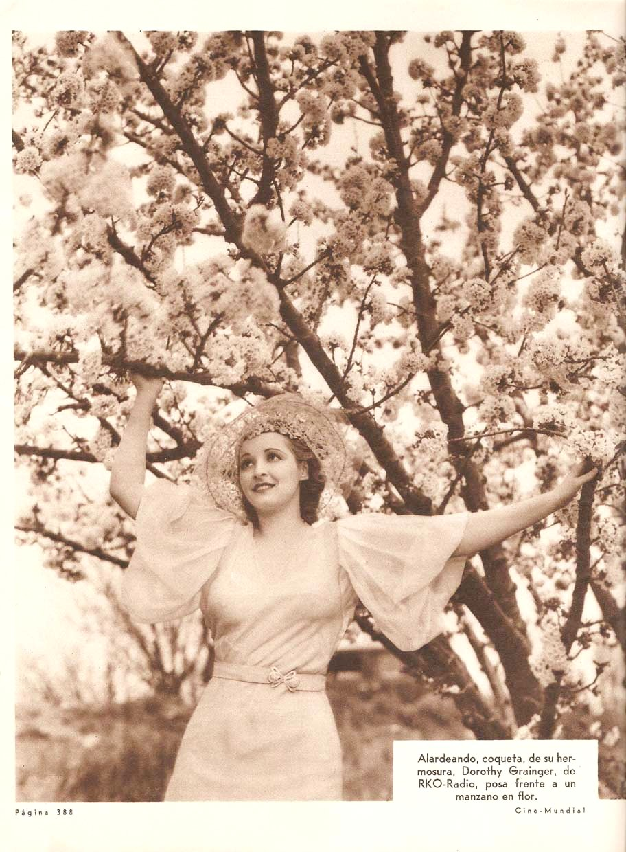 Publicity photo of Dorothy Granger for Argentinean Magazine. (Printed in USA)